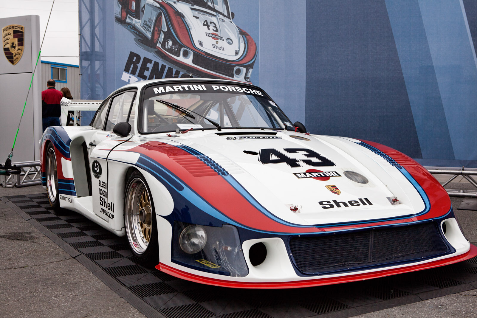 The Martini Racing Porsche 935/78 "Moby Dick" at the Mazda Raceway Laguna Seca during the Porsche Rennsport Reunion IV.